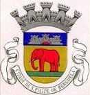 Coat of arms of Benguela, Angola